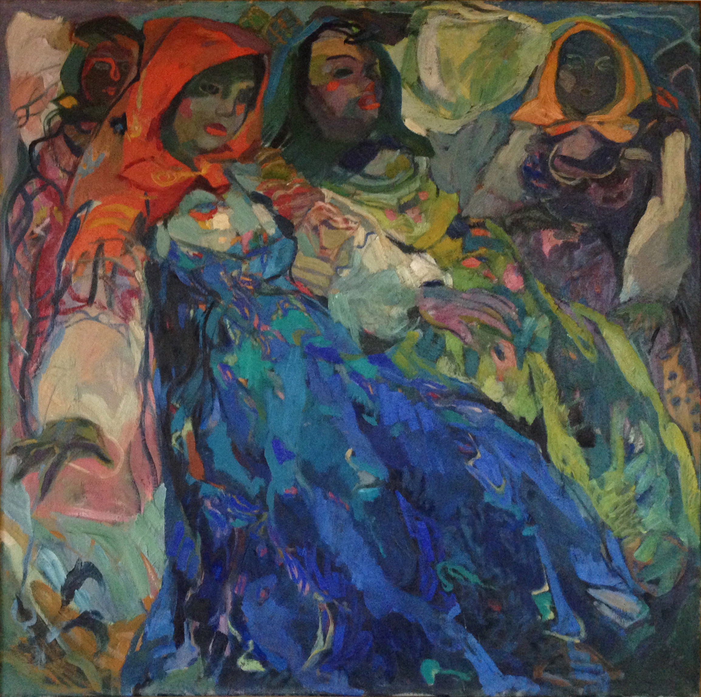 Oil painting by the Russian/Norwegian artist Alexey Zaitzow